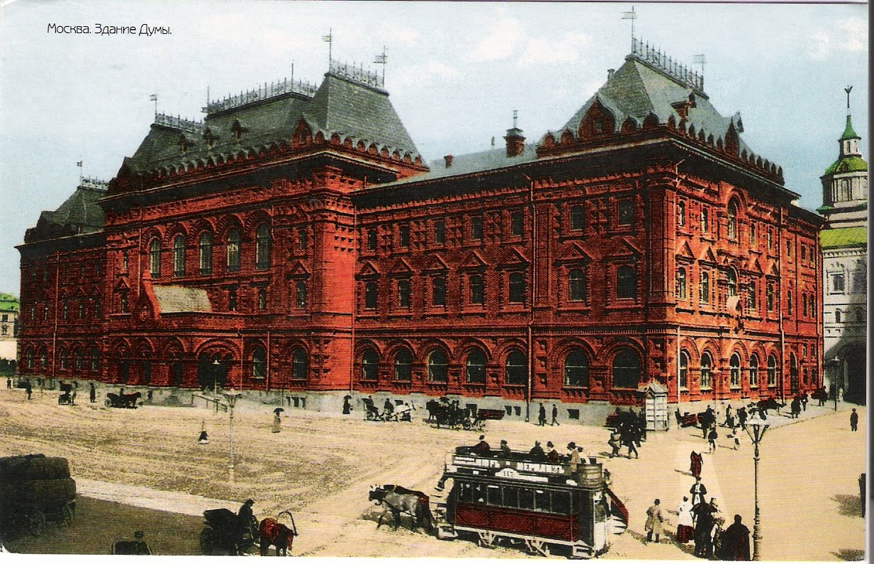 The Moscow City Duma